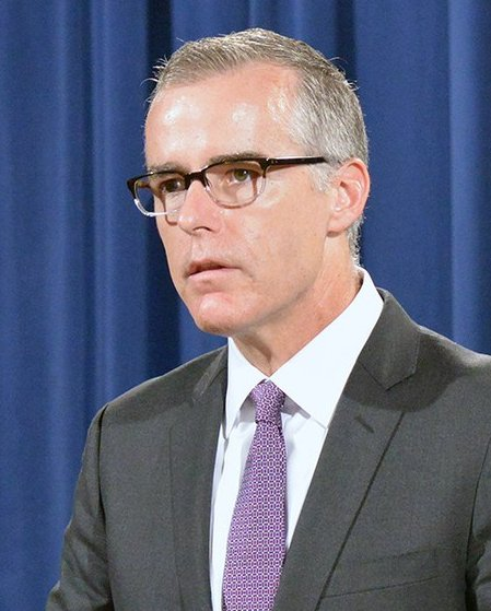 Andrew McCabe, Deputy Director of the FBI, speaks at a press conference announcing U.S. efforts to recover more than $1 billion in assets associated with a fund owned by the Malaysian government.